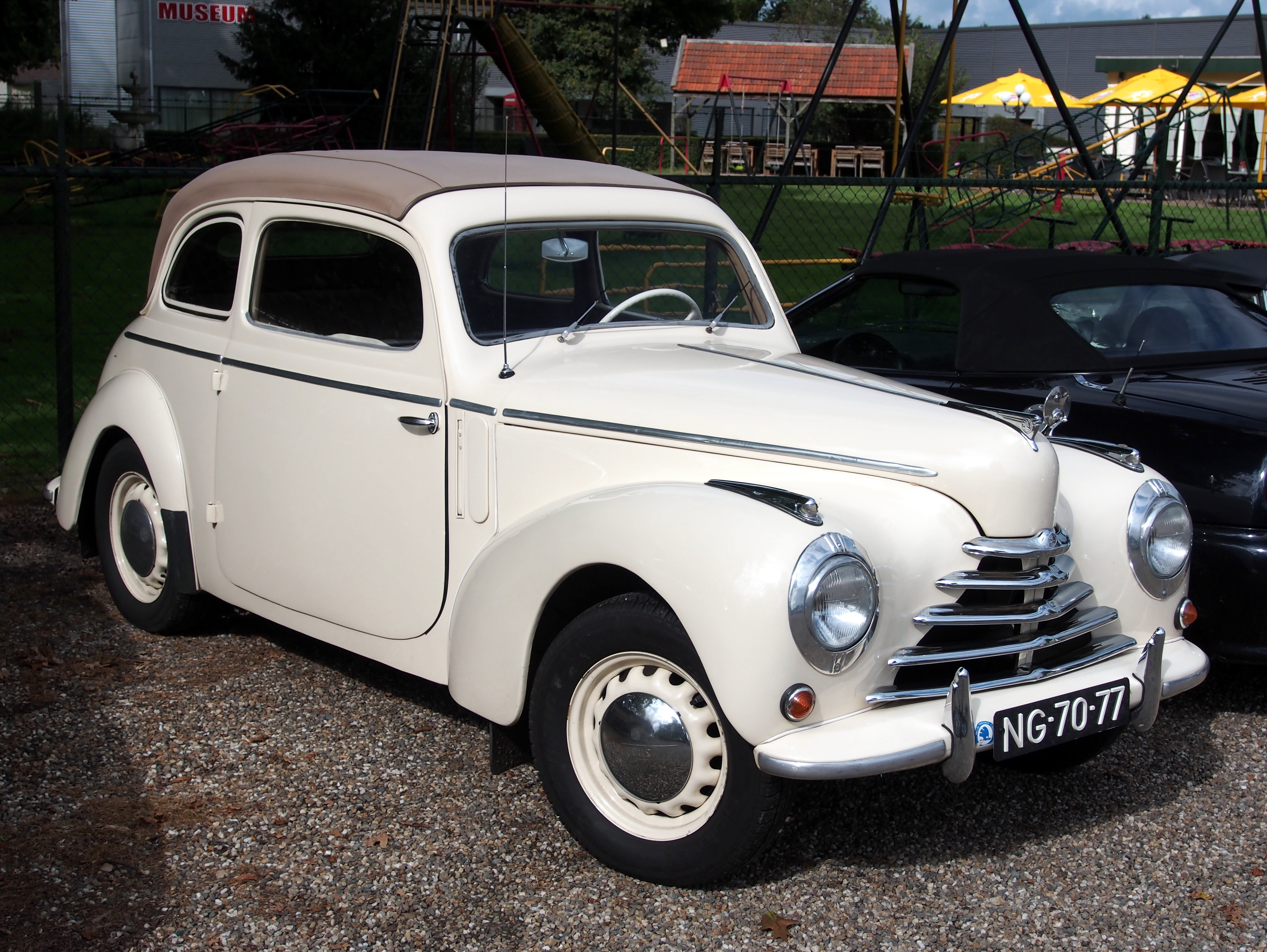 Photographed at Horn, the Netherlands.